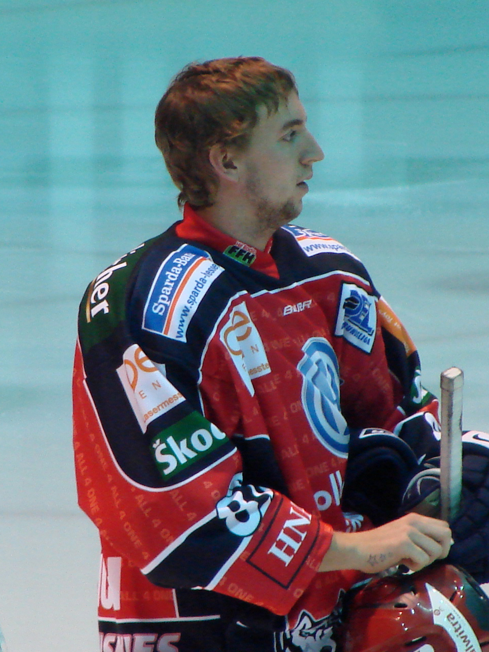 Alexander Heinrich in Huskies Dress